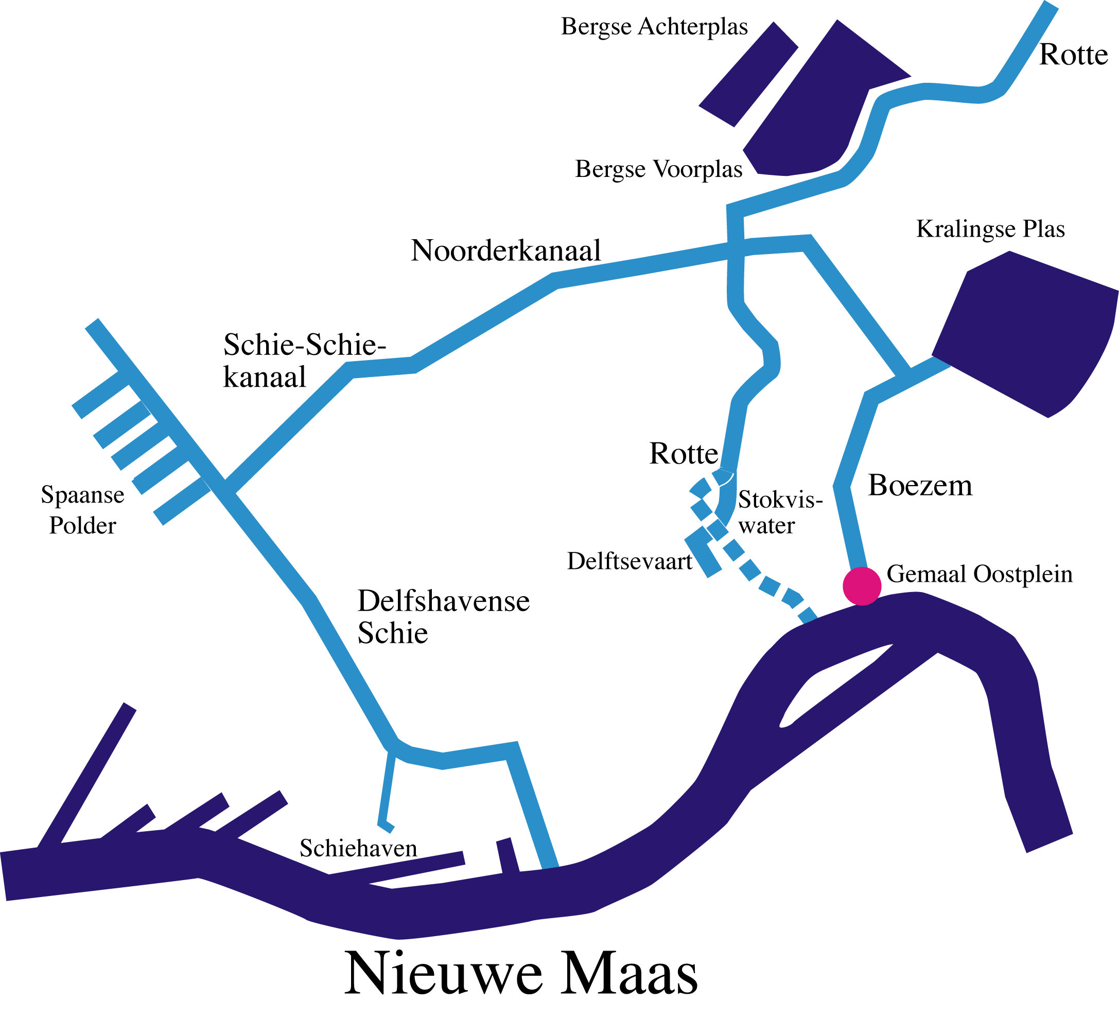 Schematic drawing of rivers, canals and lakes around central Rotterdam